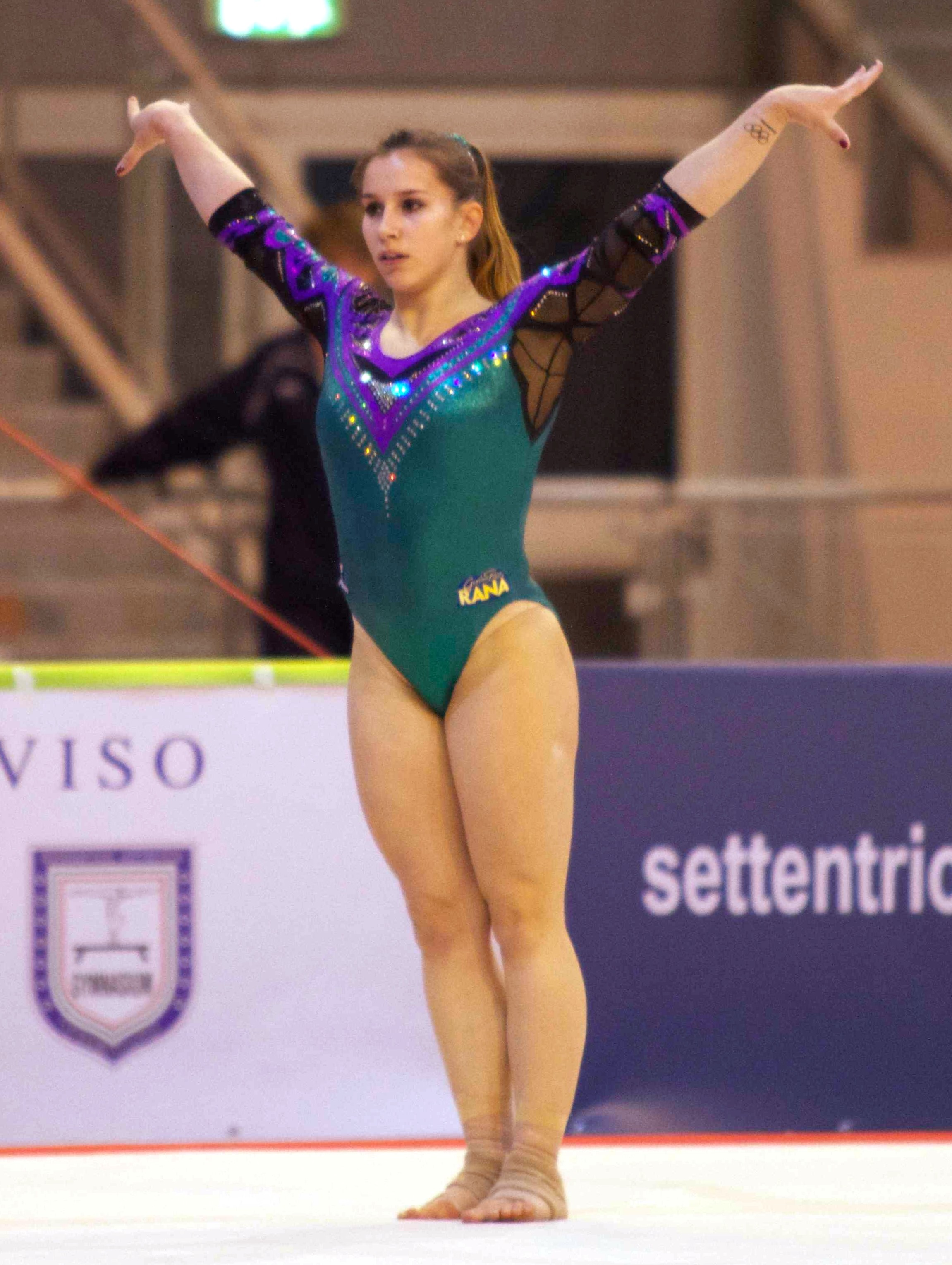 Erika Fasana. Jesolo, 24th march 2013